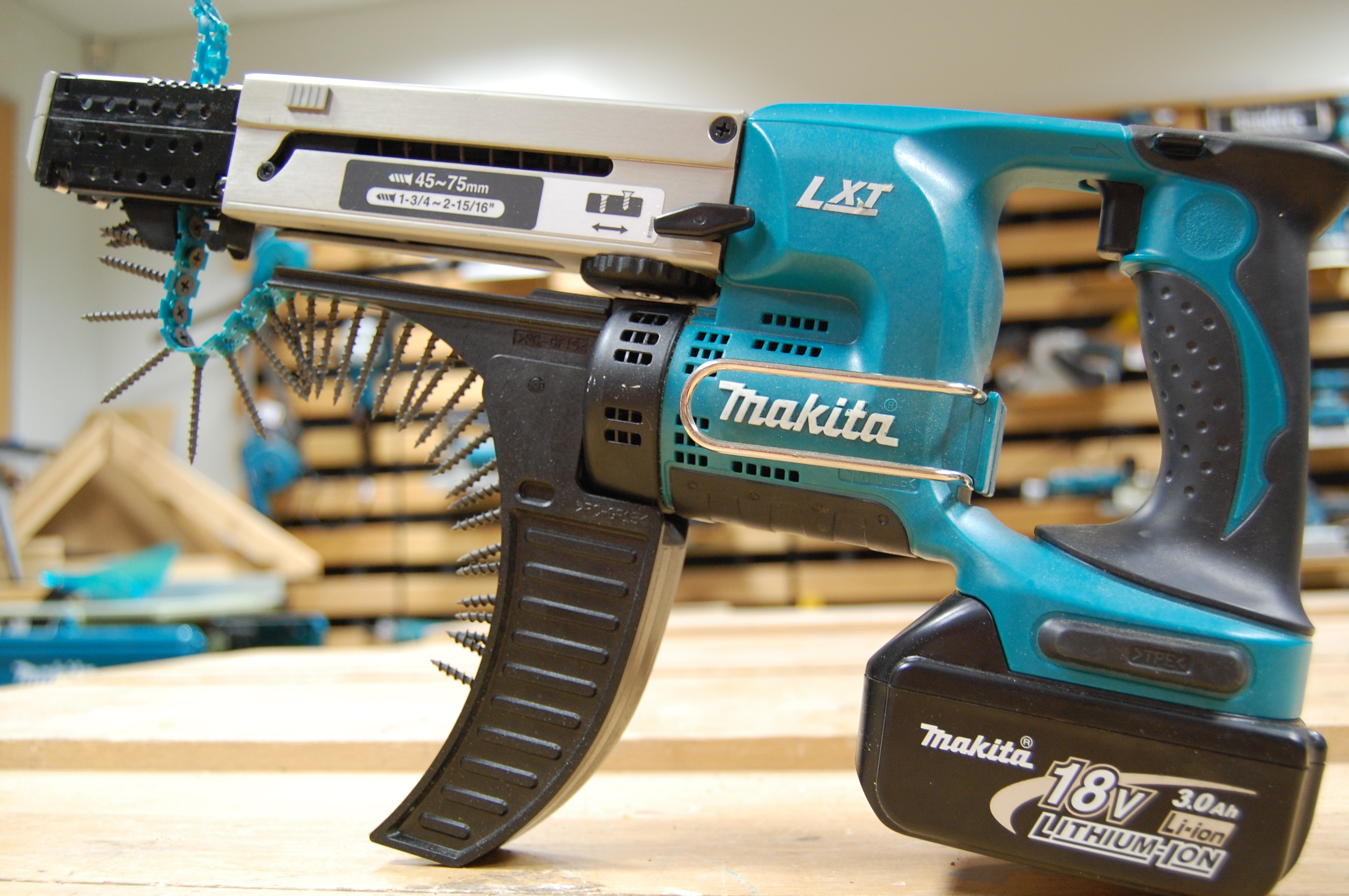 A Makita auto-feed Screwdriver